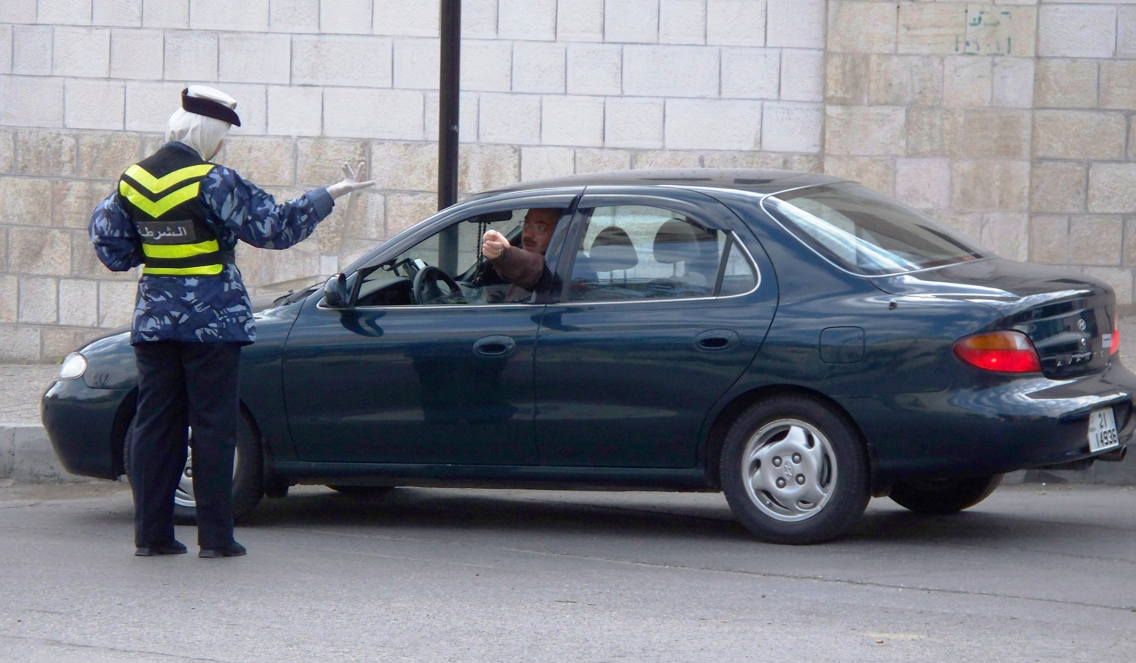 A police woman during a vehicle inspection in Amman, Jordan.